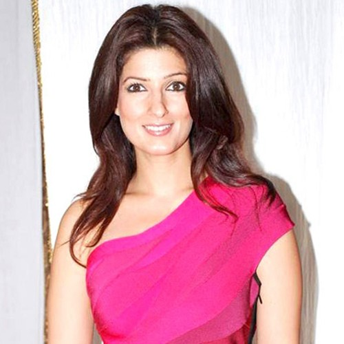 Photo of Twinkle Khanna from the Launch of Twinkle Khanna's The White Window.